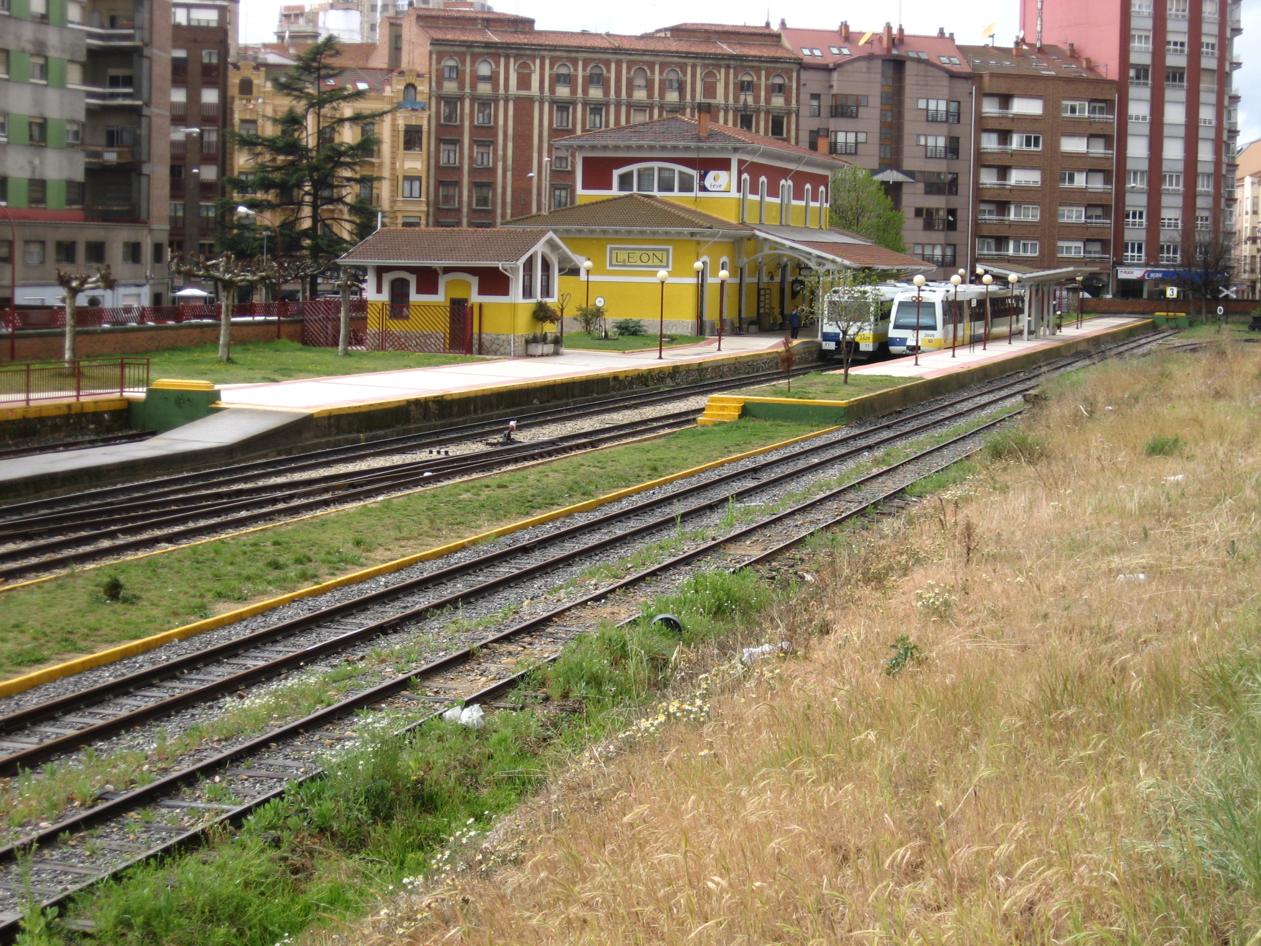 Overview off Leon Station. Altitude: 841 meters.